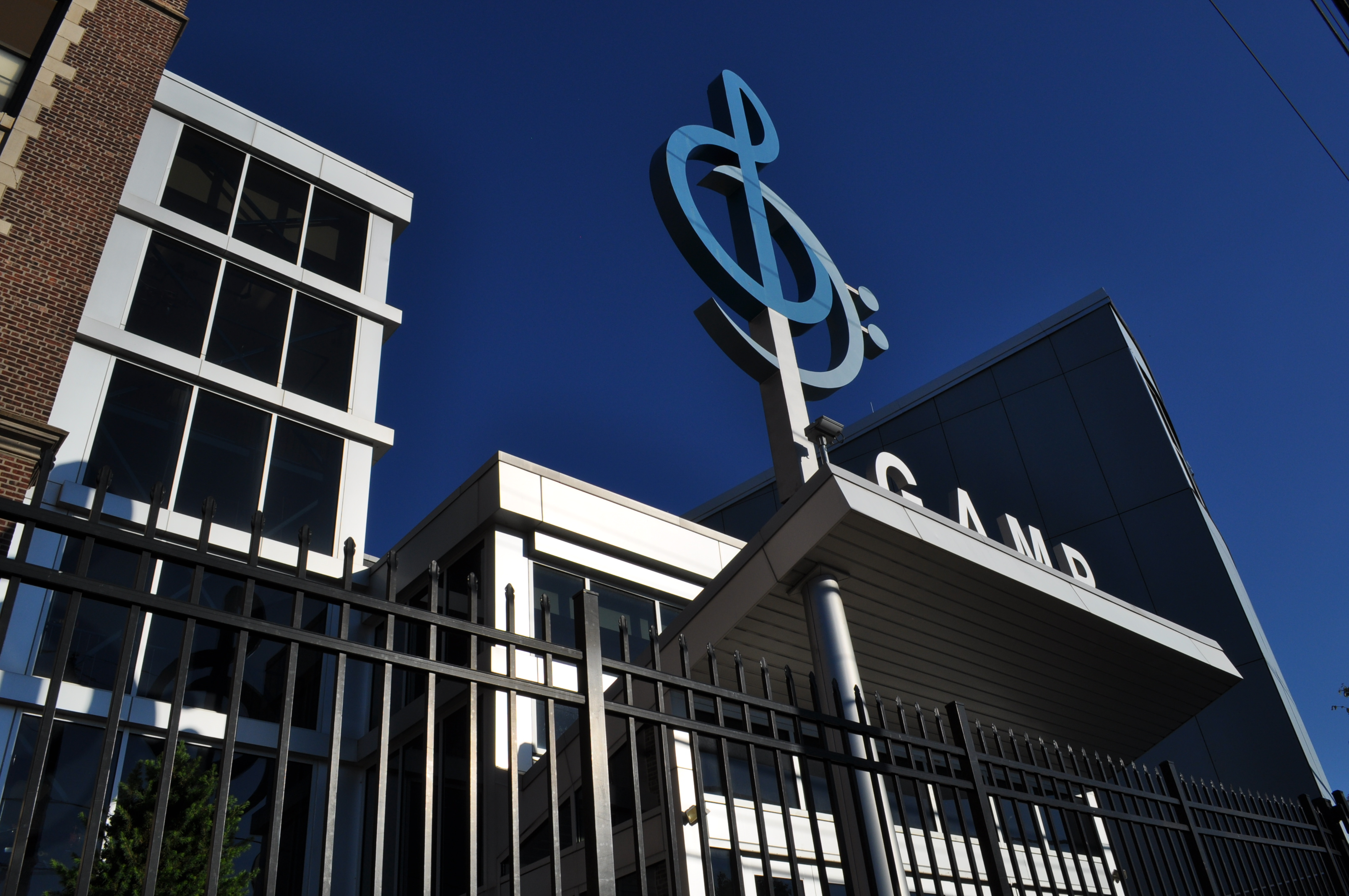 Girard Academy Music Program (GAMP) Main Entrance - 2136 Ritner St Philadelphia PA